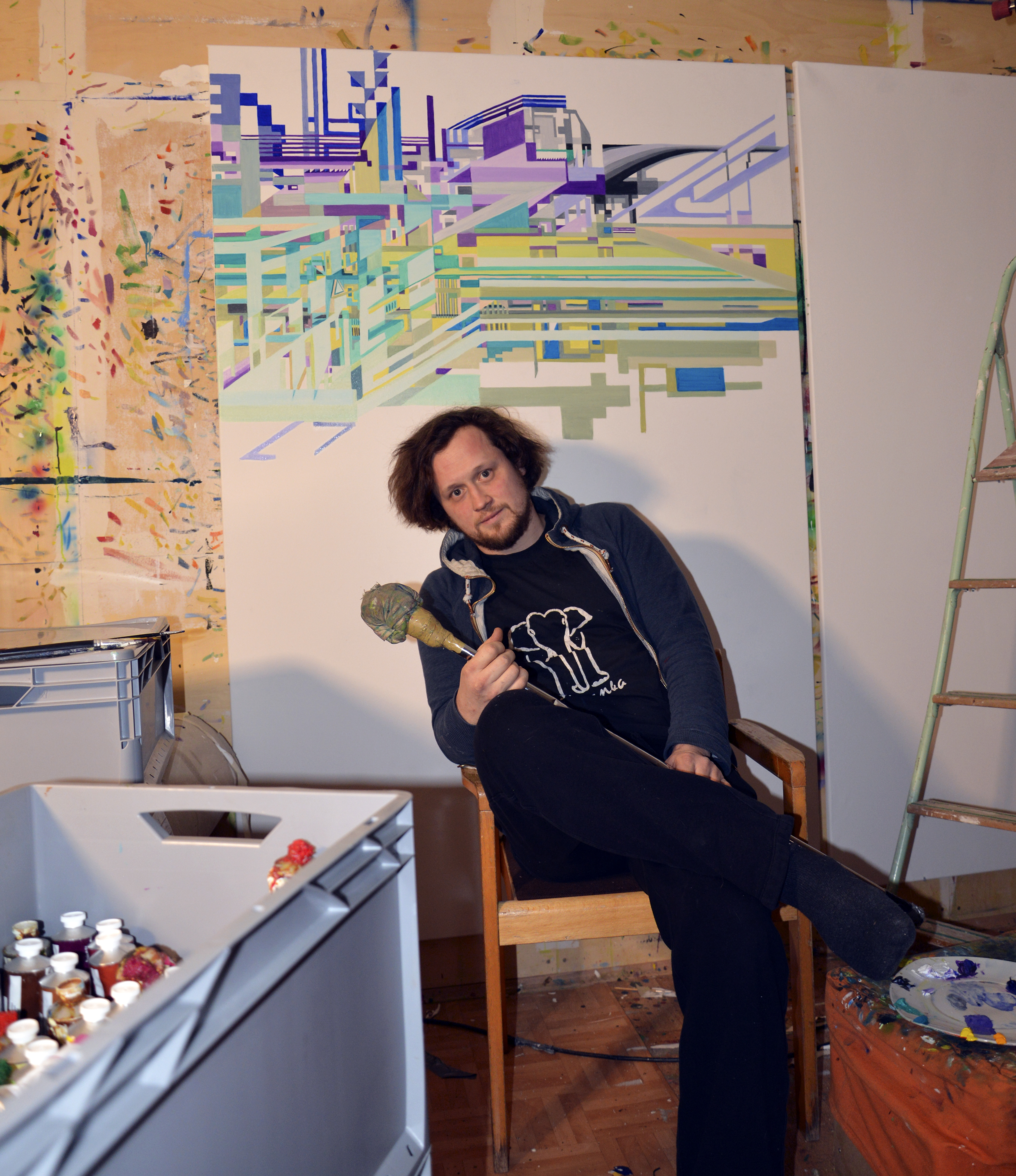 Munich painter Martin Blumöhr in his studio in front of an unfinished painting.